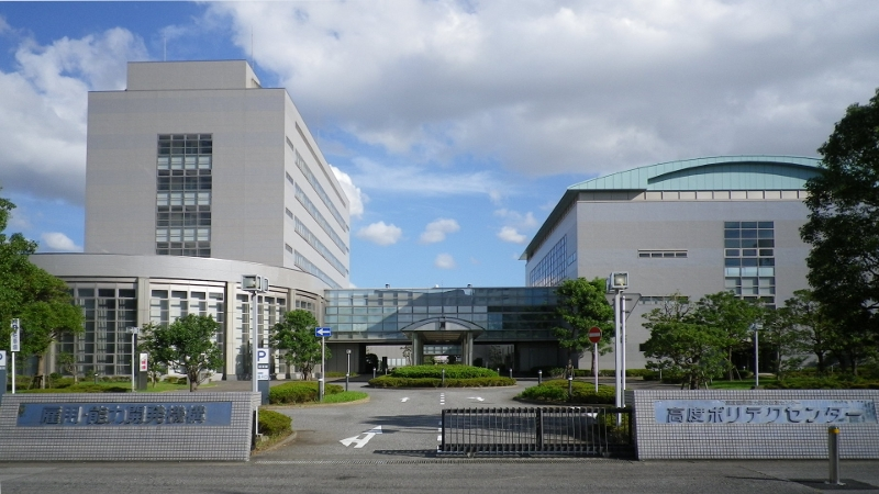 advanced polytechnic center